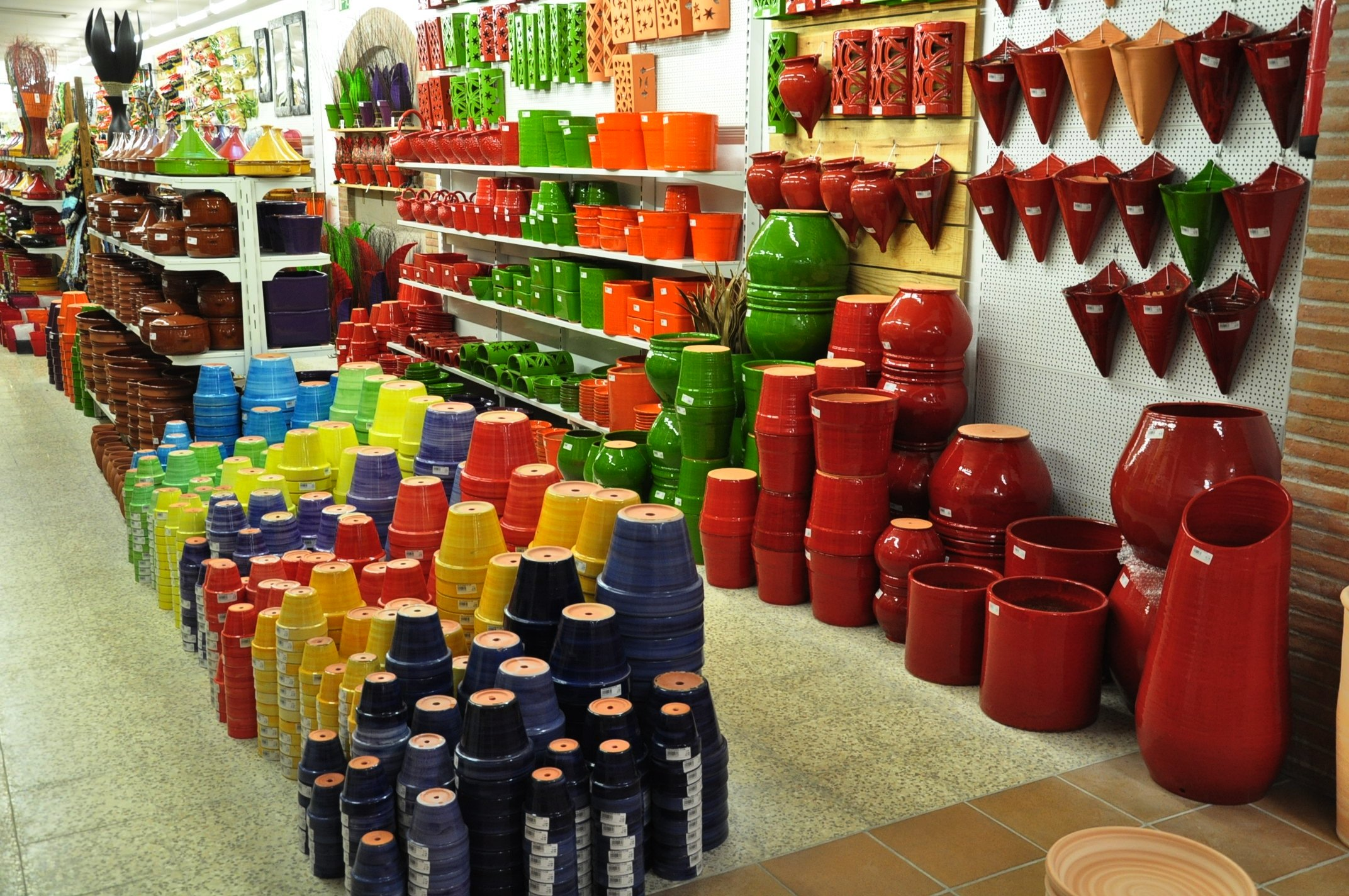 The ceramics industry represents the mainstay of the economy of La Bisbal d'Emporda (Baix Emporda, Catalonia, Spain).